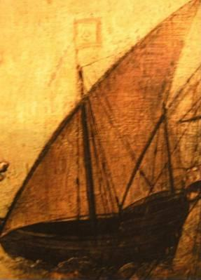 The most reliable painting of the Latin Caravel